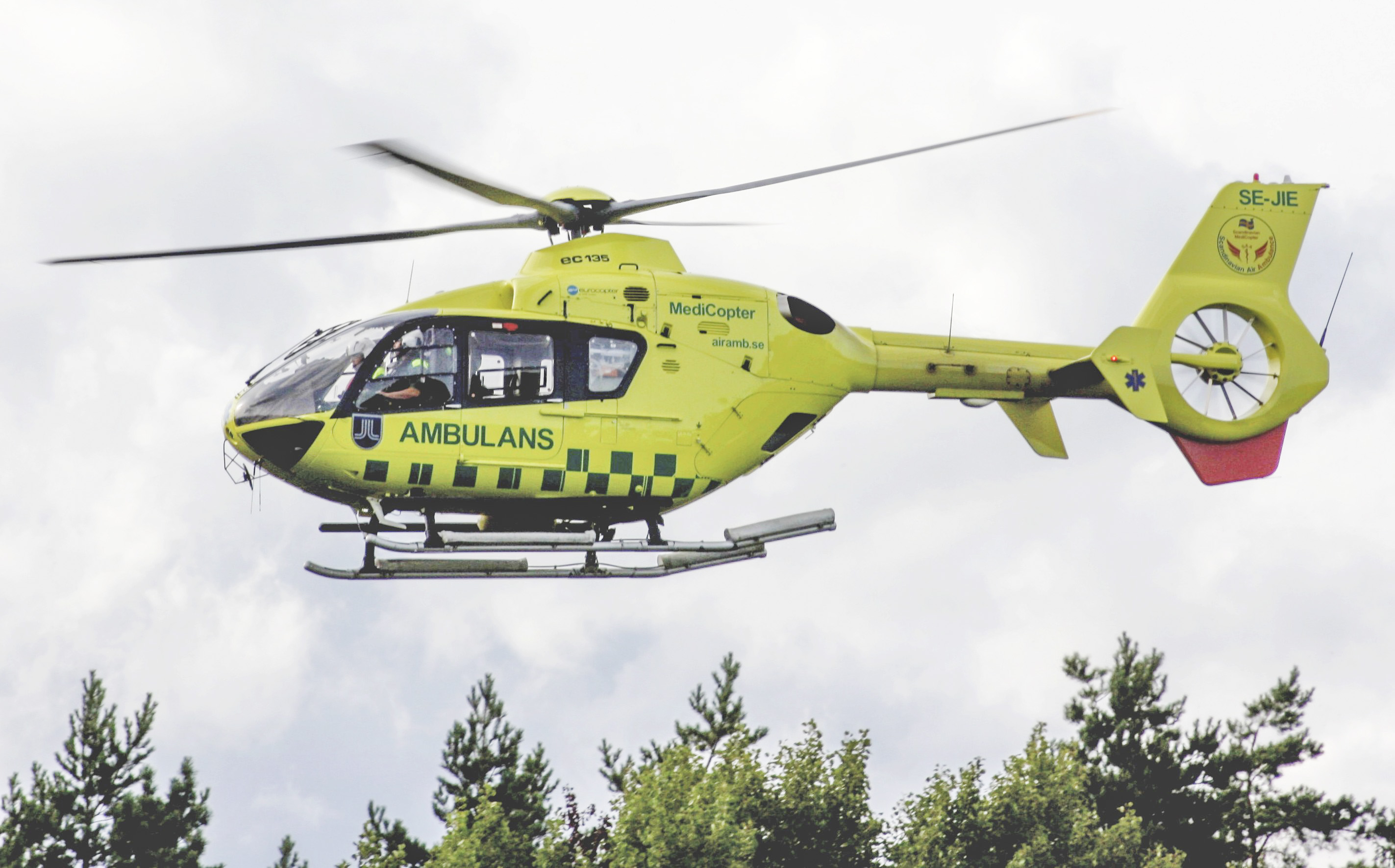 Swedish ambulance helicopter August 5, 2009